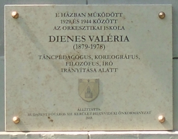 Valéria Dienes's commemorative plaque in Budapest District XII.